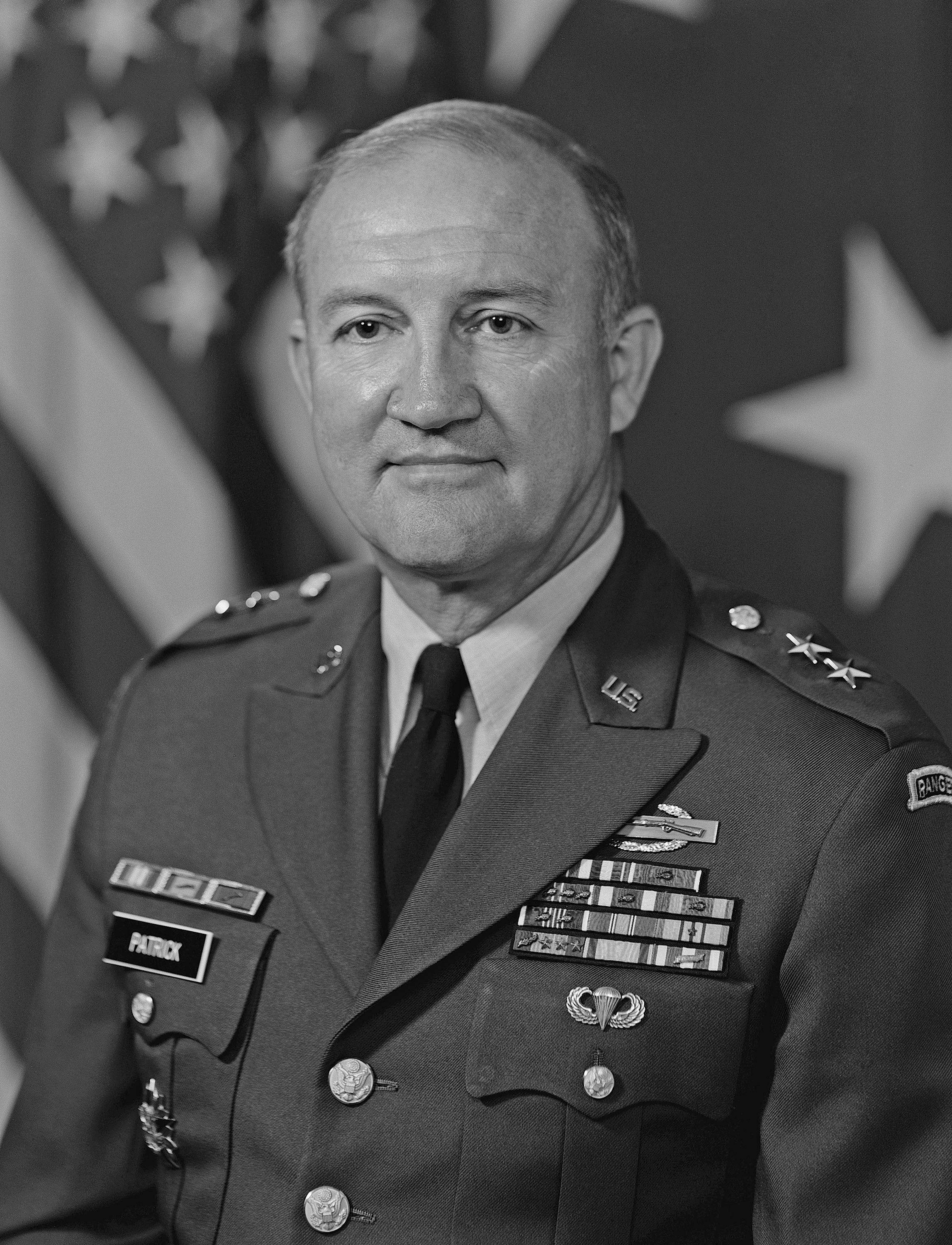 Portrait: US Army (USA) Major General (MGEN) Burton D. Patrick (uncovered), 07/19/1984